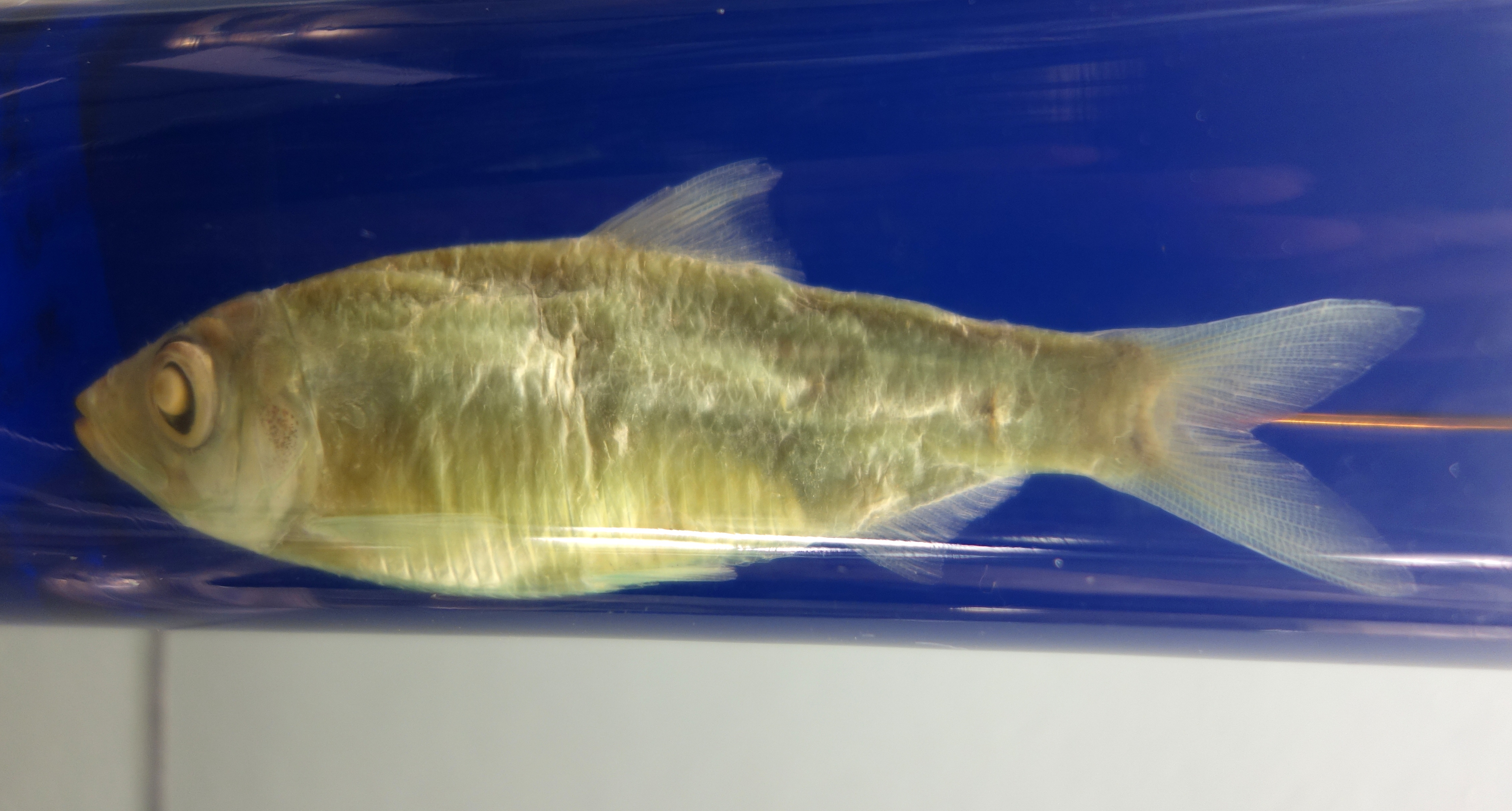 Exhibit in the Royal Museum for Central Africa, Tervuren, Belgium.